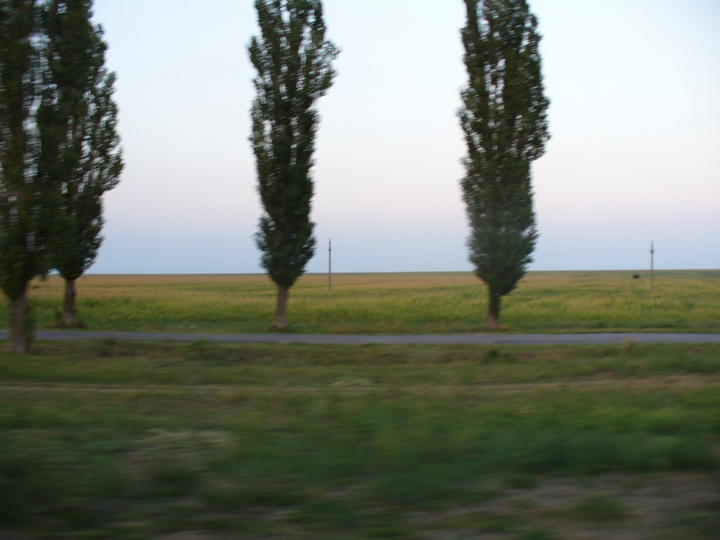 endless crop fields near Tandarei